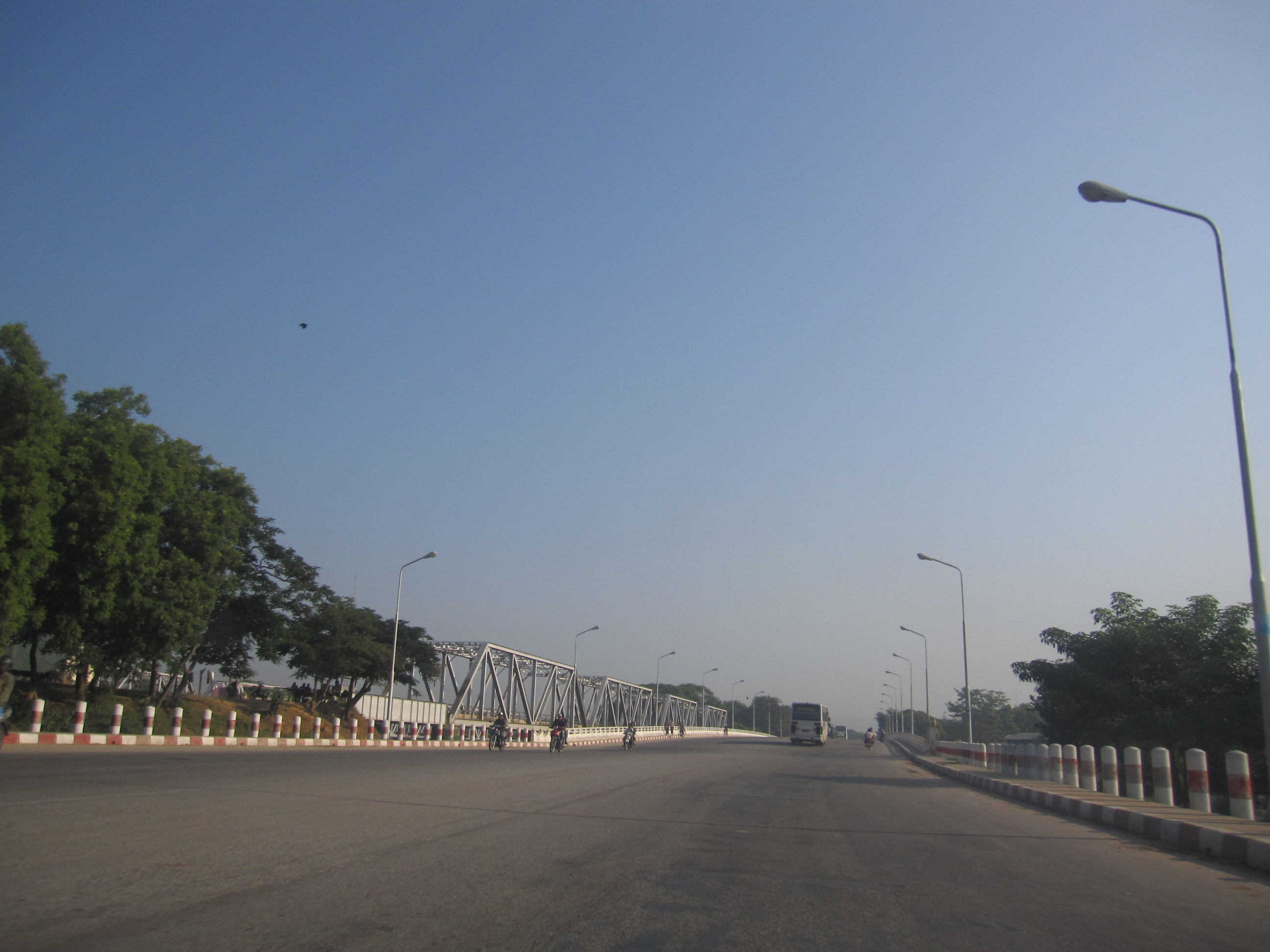 The bridge over Myitnge River on the road from the airport to Mandalay